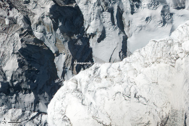 Annapurna